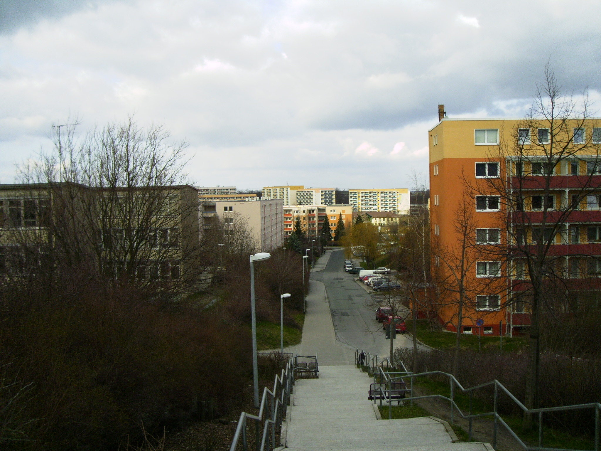 View on Albert-Einstein-Street in Bautzens district “Gesundbrunnen”.